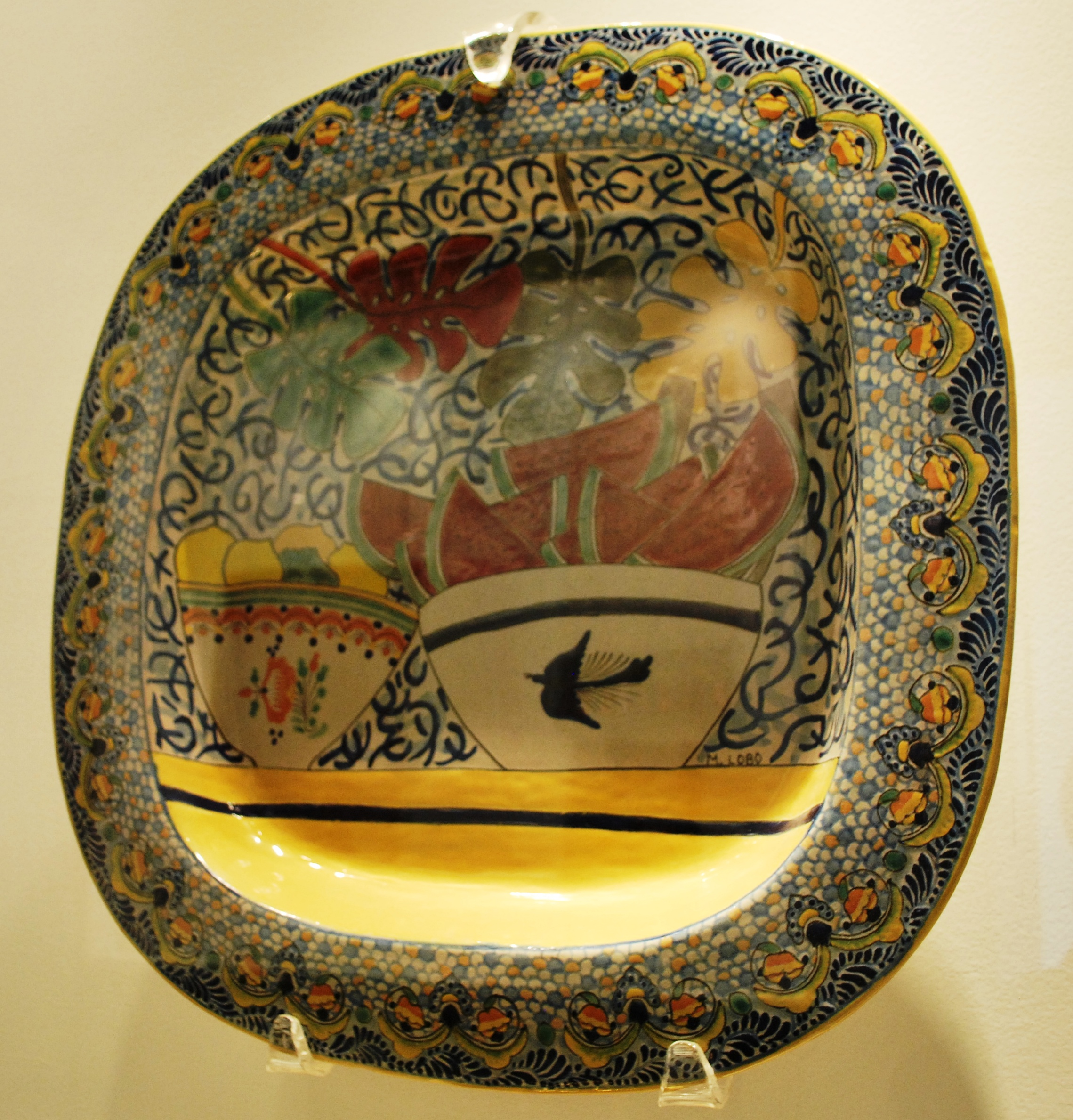 Talavera serving tray from the Uriarte workshop in Puebla Mexico designed by Marcela Lobo on display at the Museum of Artes Populares in Mexico City